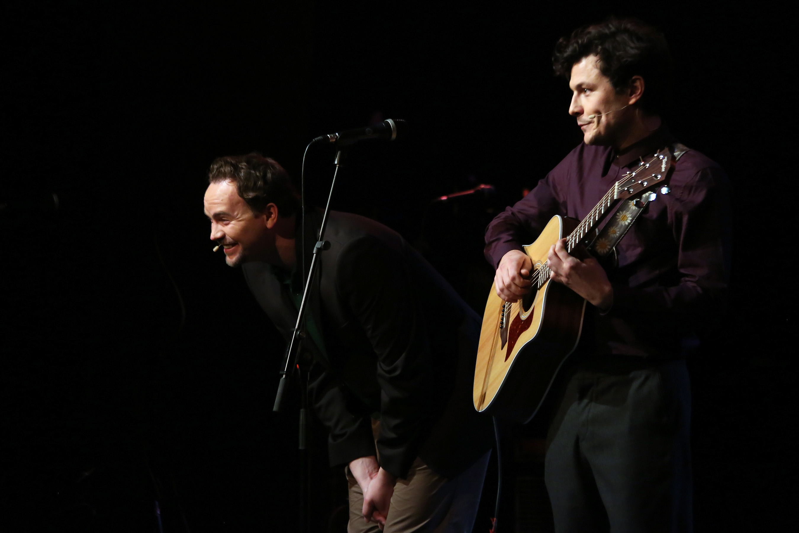 Austrian Cabaret Award 2012 (Porgy & Bess, Vienna).